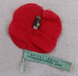 A 1921 French-made British Legion cotton Remembrance Poppy. Cotton and silk poppies were made by Madame Guérin's widows & orphans in the devastated areas of France. Madame Guérin was "The Poppy Lady from France" and the "Originator of the Poppy Day".